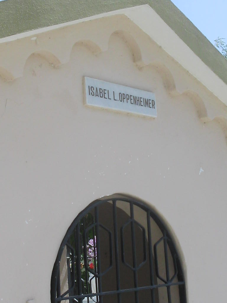 Tomb of Isabel La Negra in the Cementerio Civil de Ponce, adjacent to Cementerio Católico San Vicente de Paul